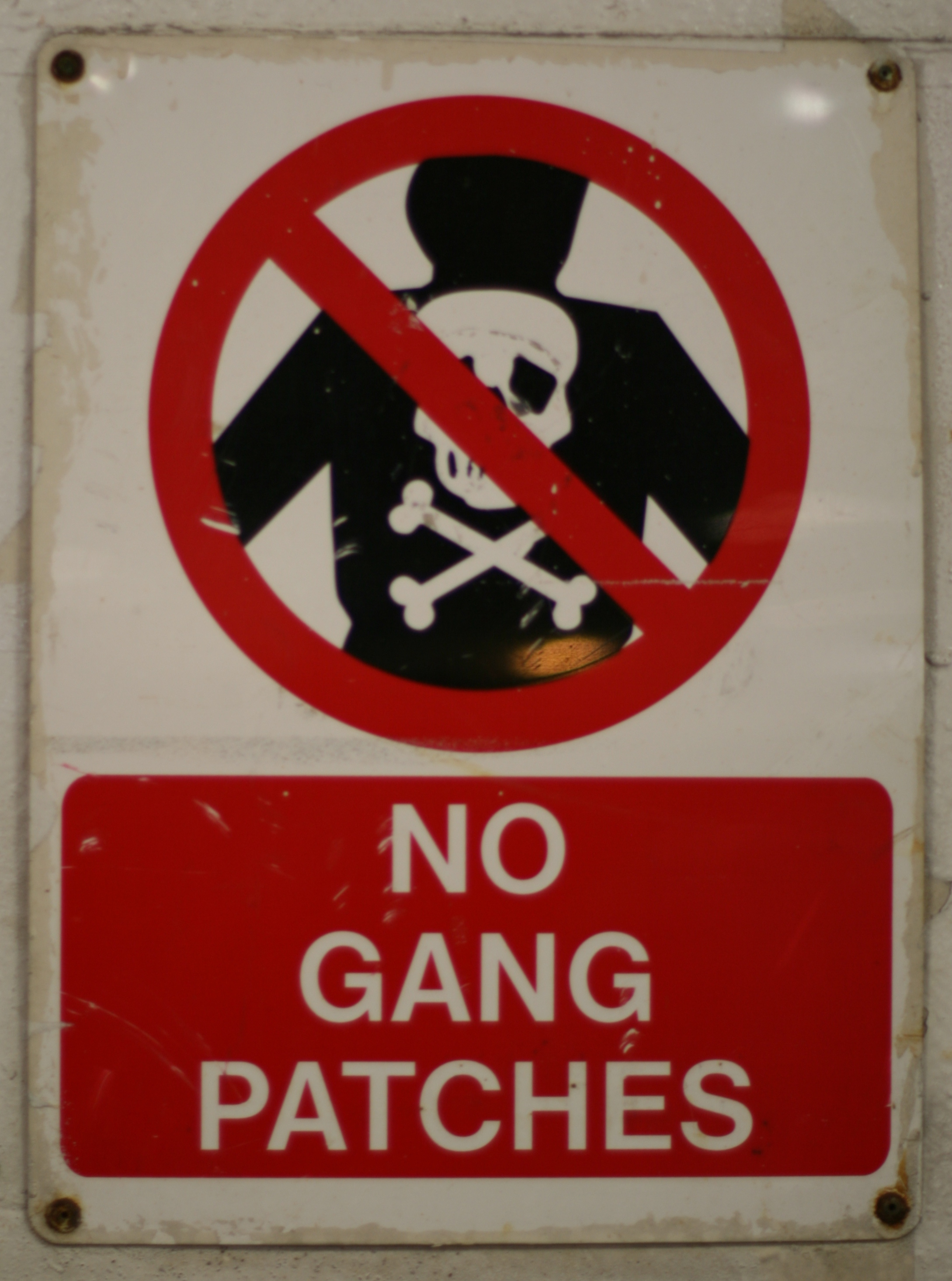 Sign attached to the wall of a ferry on the vehicle deck. The upper half of the sign is a human torso in black with an overlaid skull and crossbones in white, with both overlaid circular bar symbol. The lower part of the sign is a red rectangle with the words "NO GANG PATCHES" in white lettering.